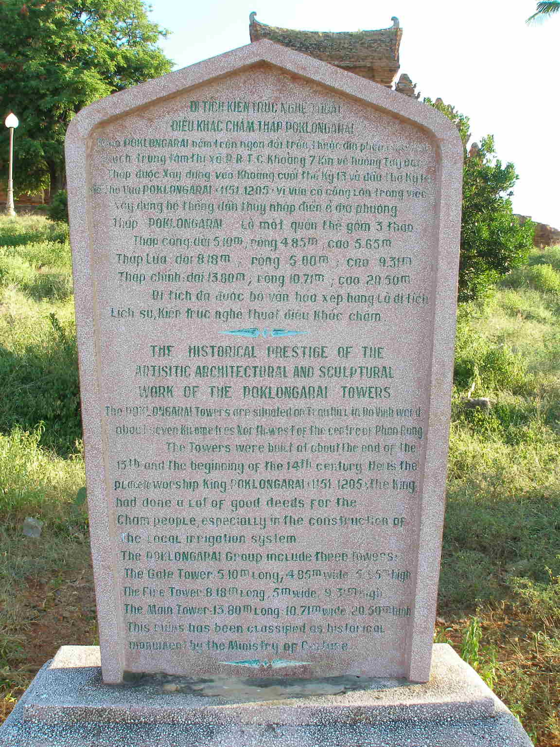 Contemporary stela with description of Po Klon Garai temple in Phan Rang-Tháp Chàm, Vietnam